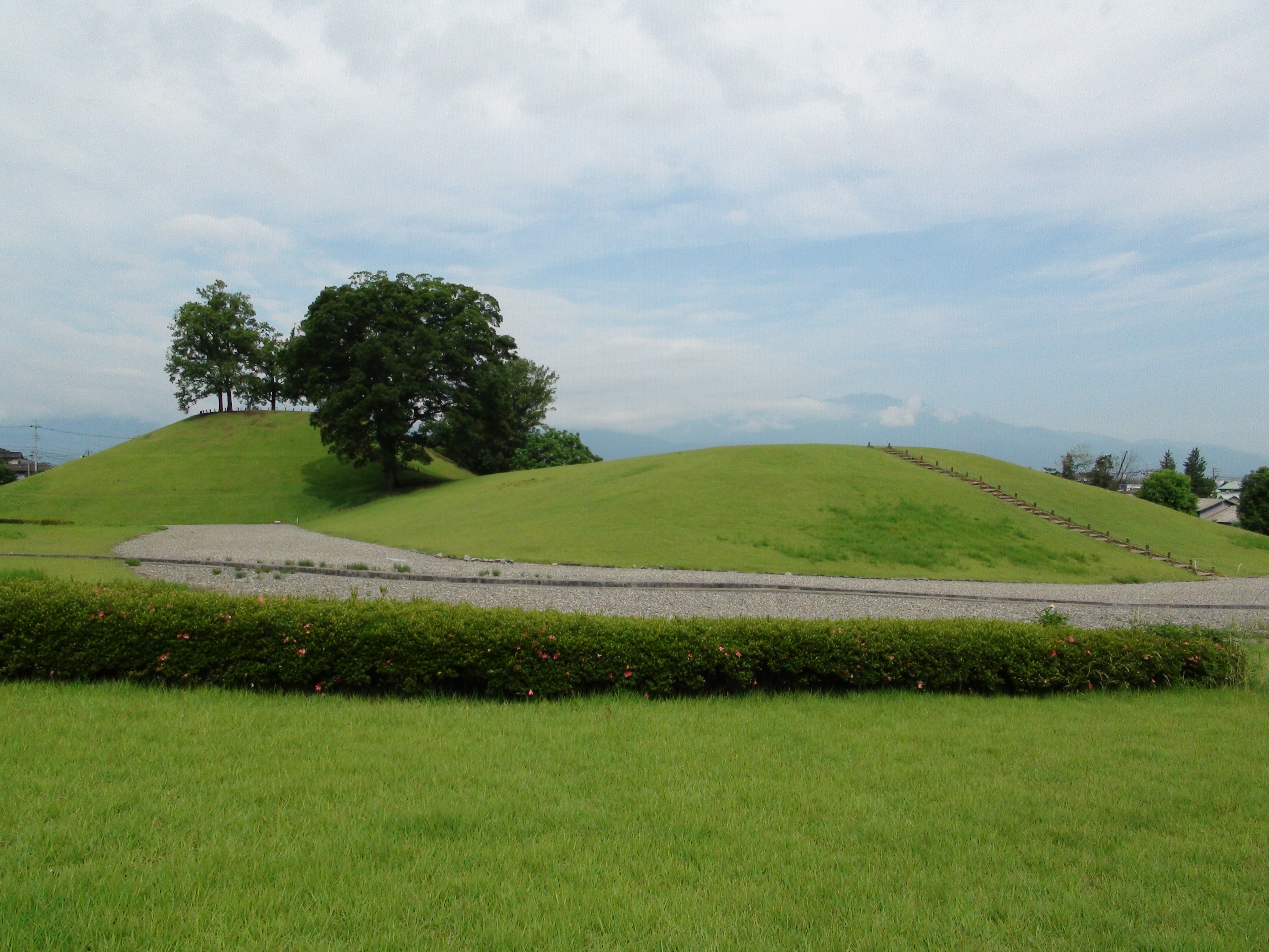 Kai-Choshizuka-kofun Old tomb at kofu-city